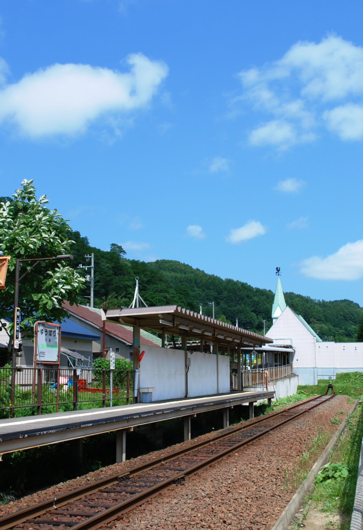 Yūbari Station 01